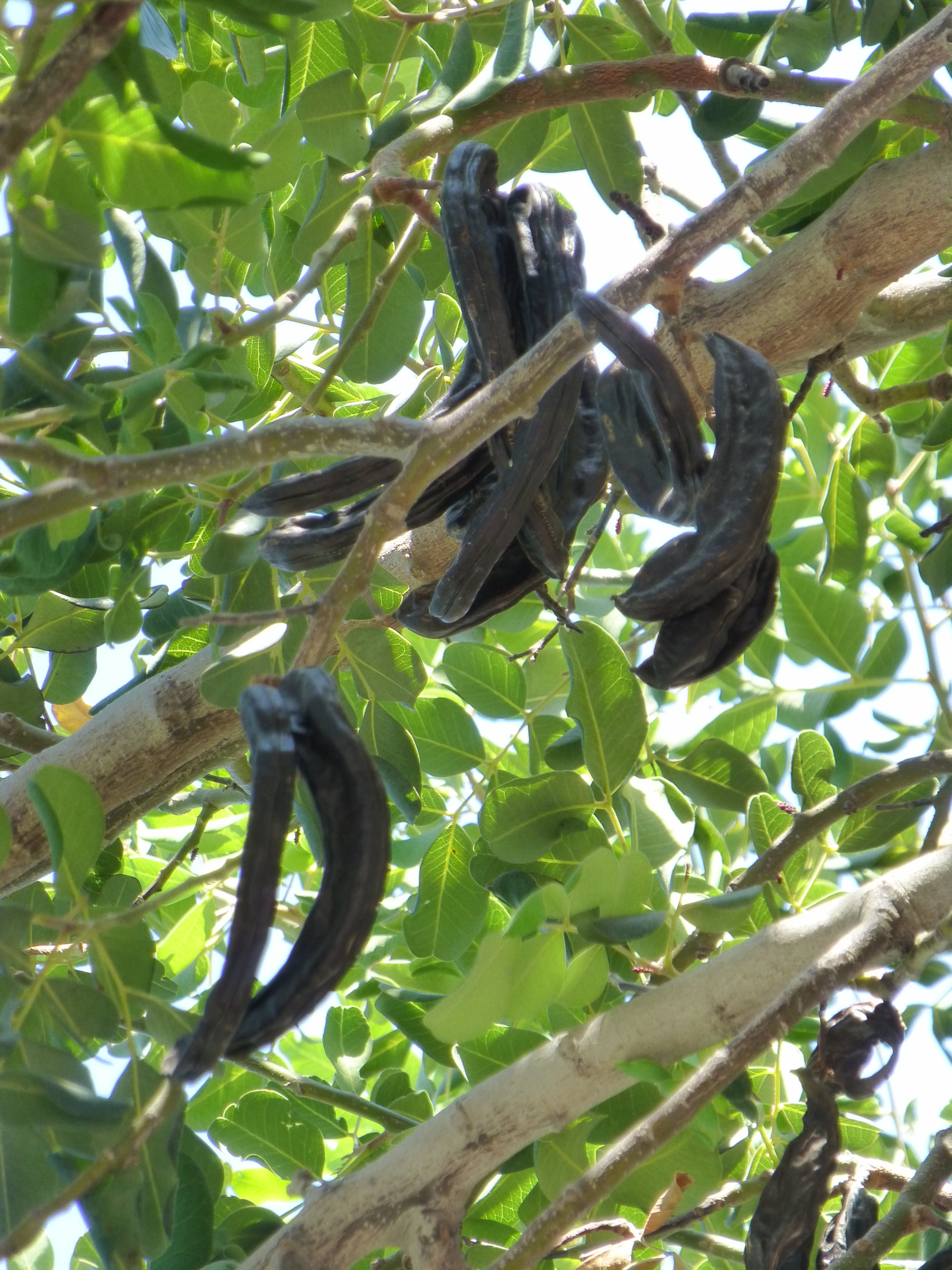 Ceratonia siliqua, Turkey